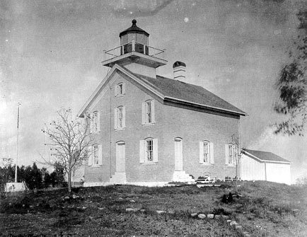 Public Domain statement here; The Pilot Island lighthouse is a lighthouse located near Gills Rock, on Pilot Island, in Door County, Wisconsin.